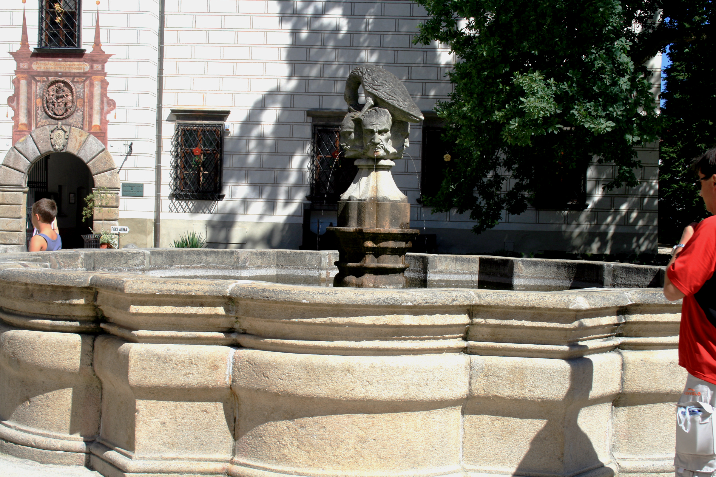 Fountain in Třeboň castle, South Bohemia, Czech Republic